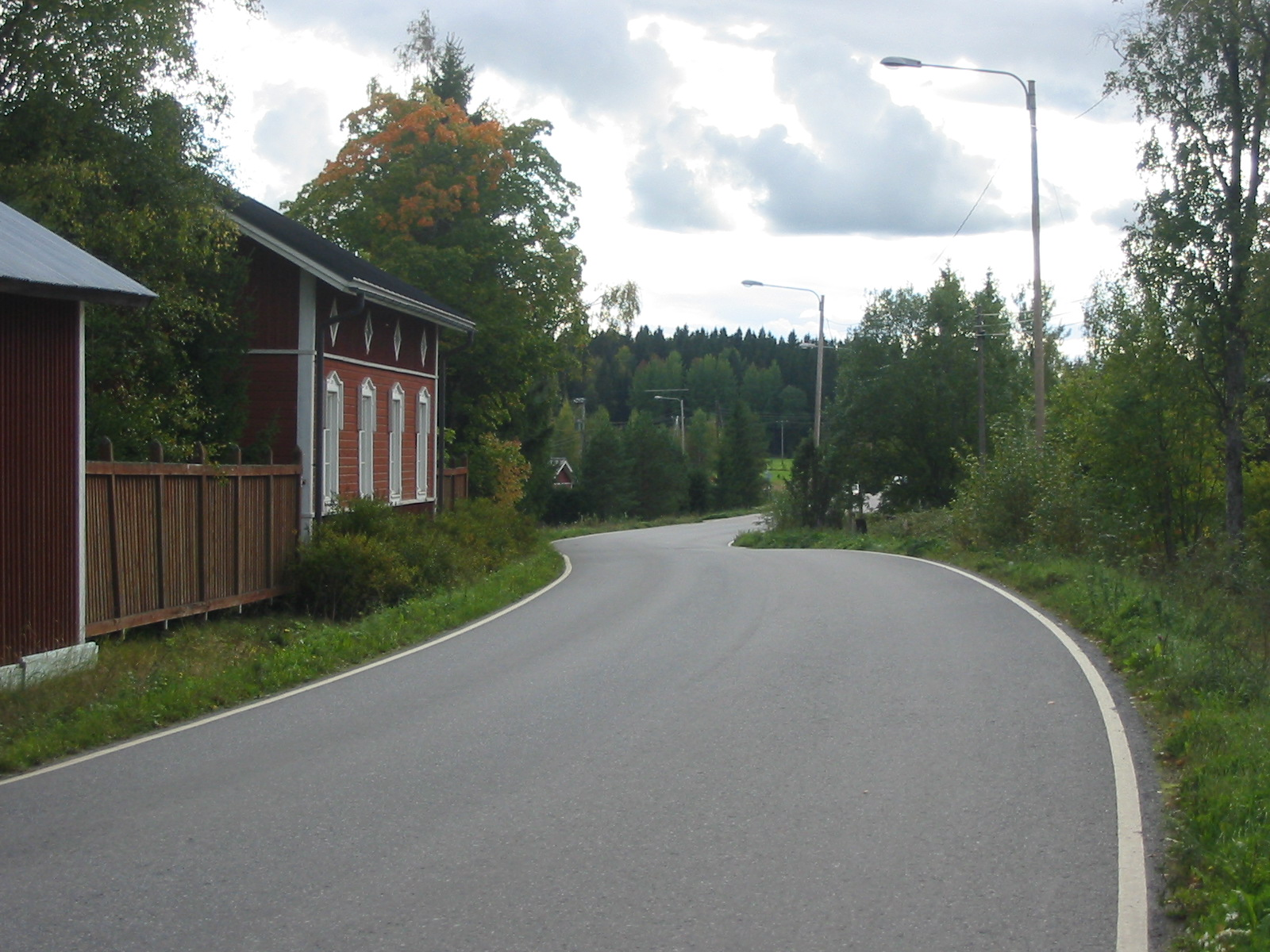 Häme Oxen Road (National road 2802)) in Kultela, Somero, Finland